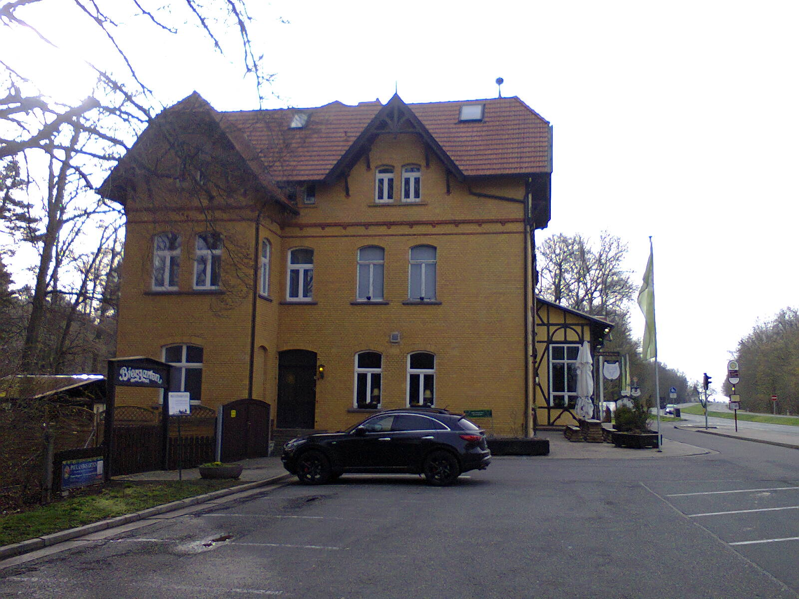 Gasthaus Schloss Hubertus Erfurt